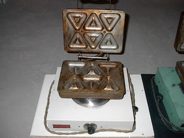 Took picture myself